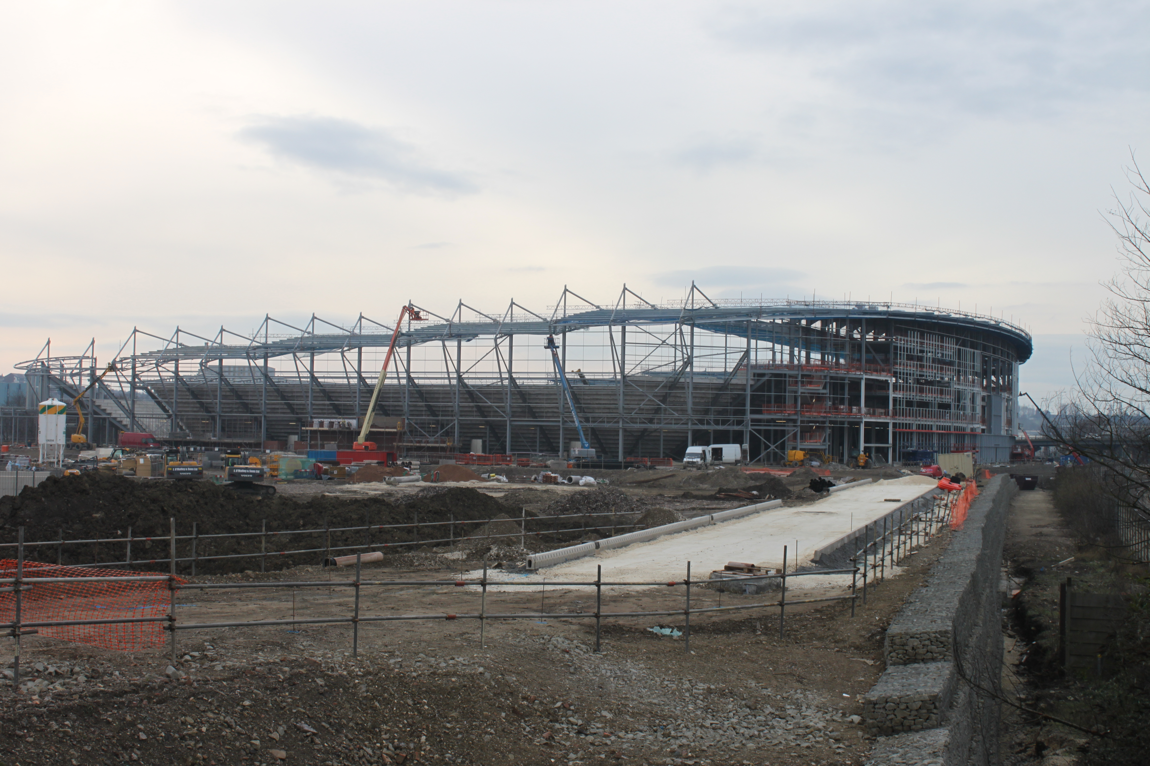 One of many photos taken while the stadium was under construction.